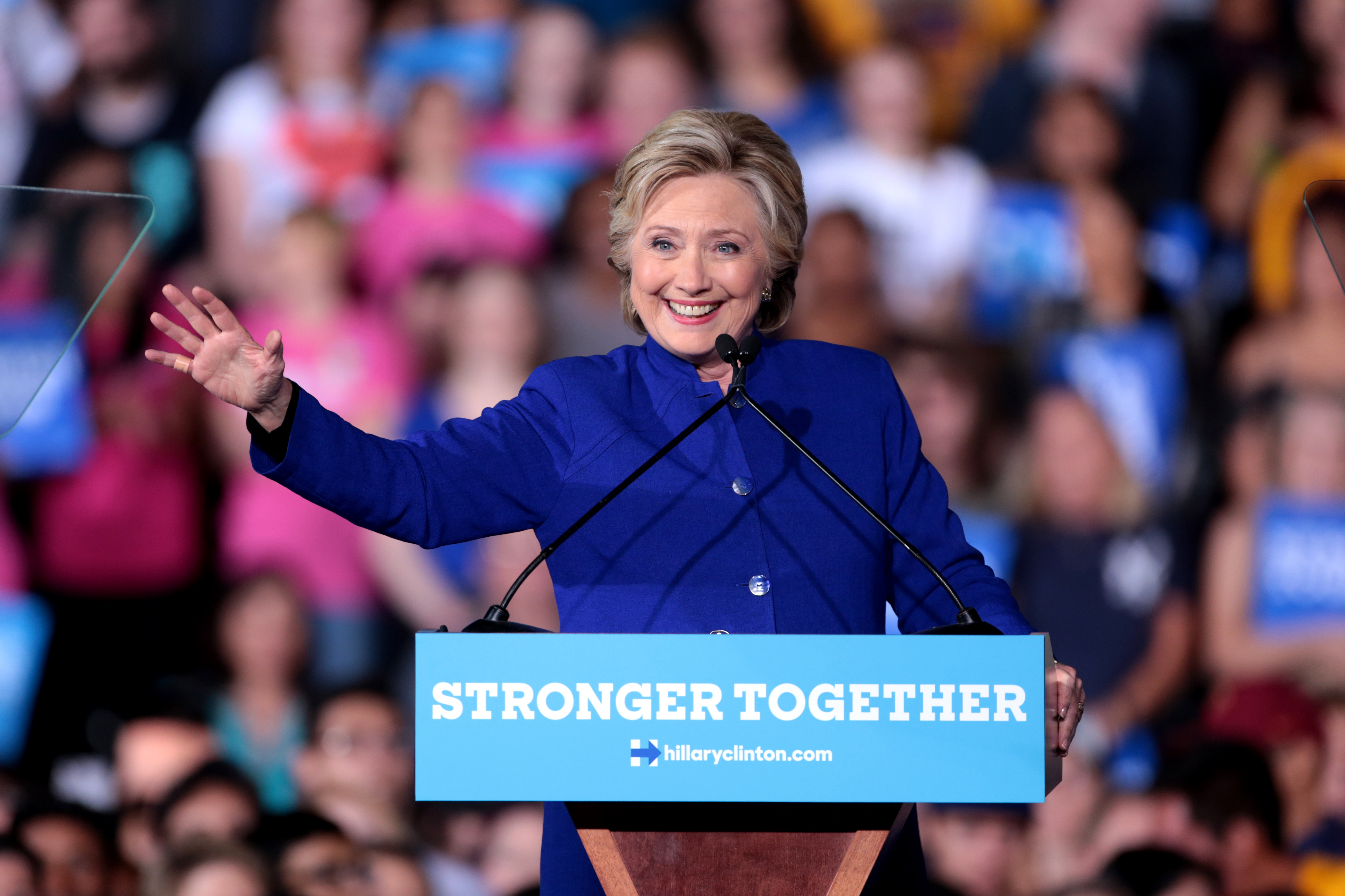 Former Secretary of State Hillary Clinton speaking with supporters at a campaign rally at the Intramural Fields at Arizona State University in Tempe, Arizona.